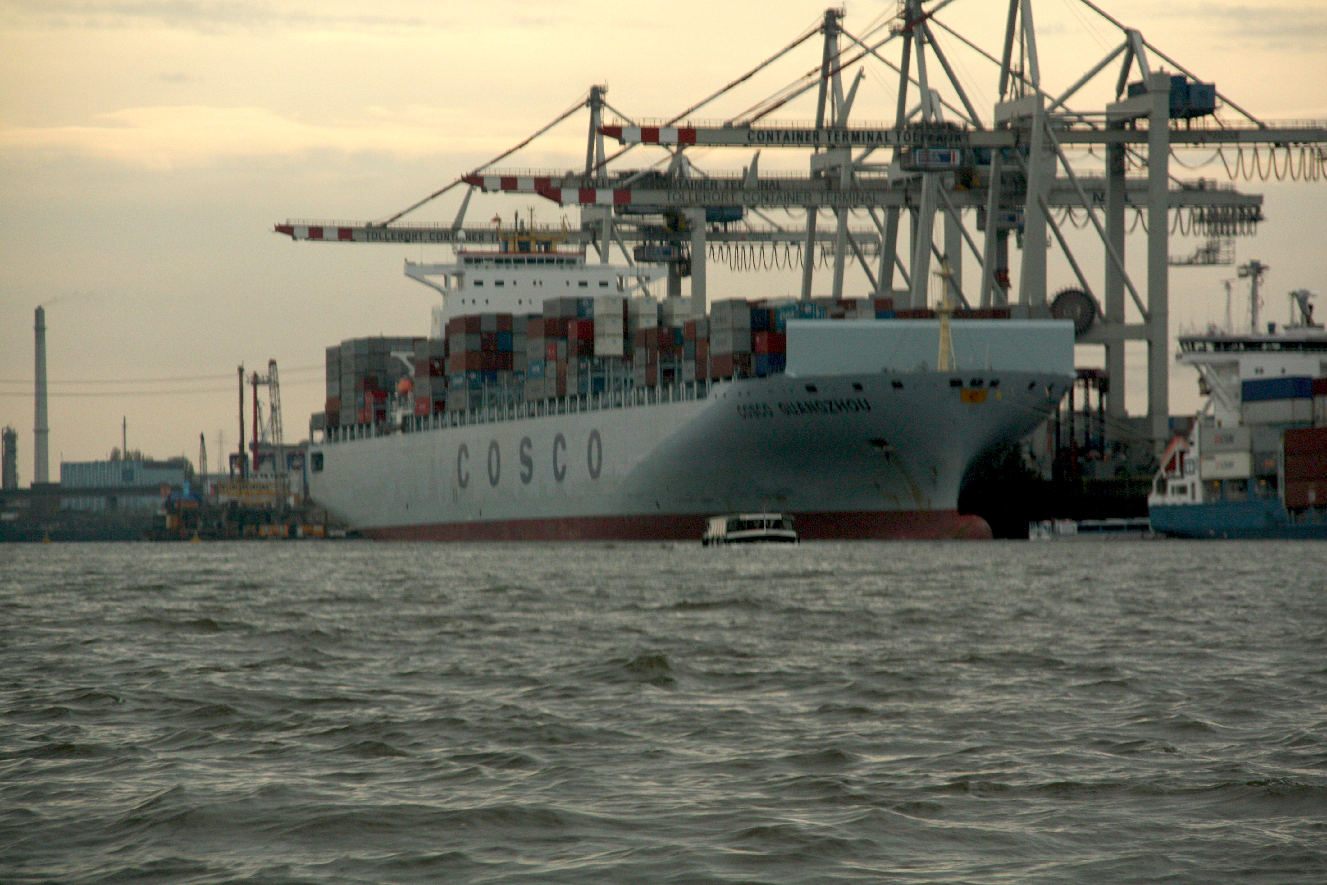 Cosco Guangzhou in the harbour of Hamburg